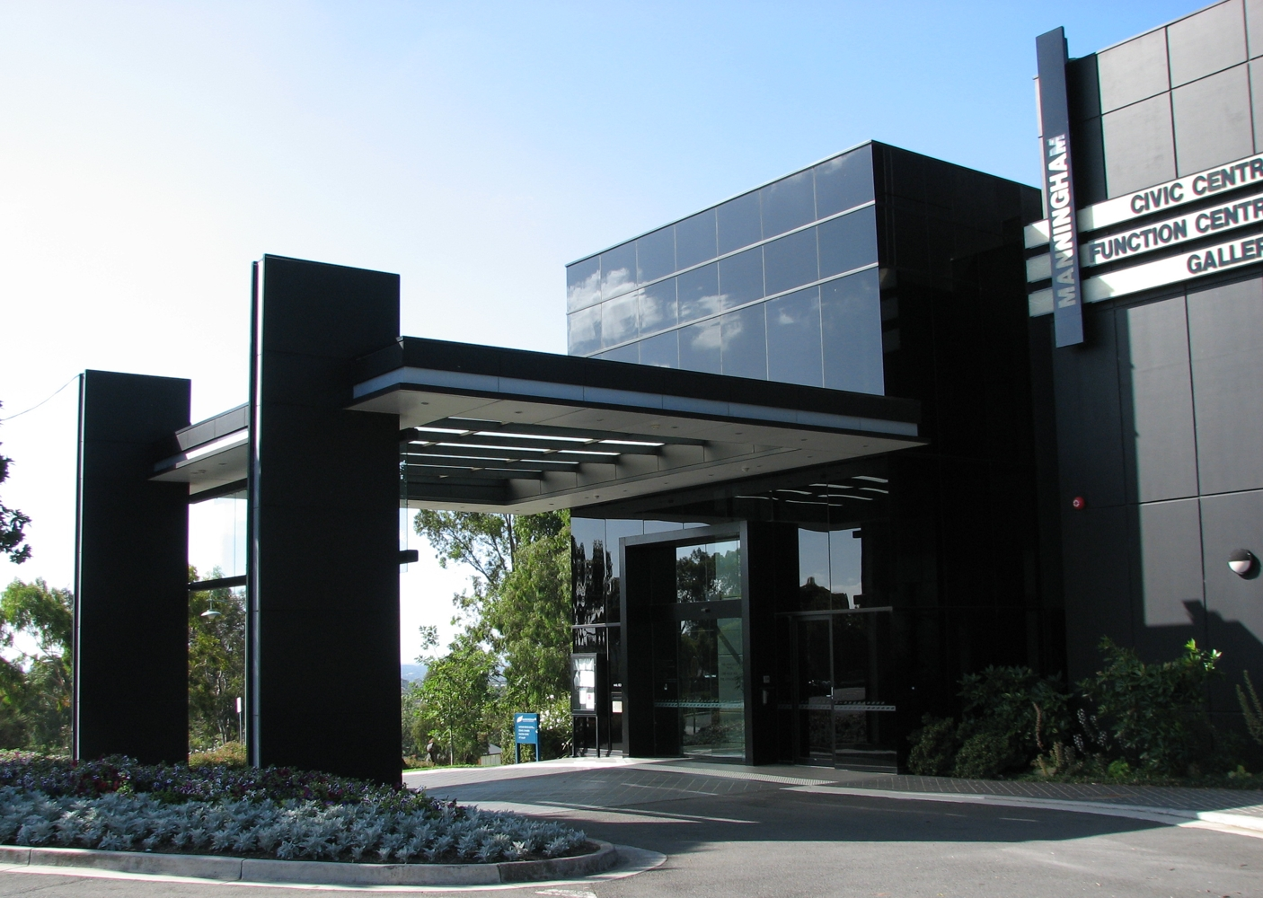 City of Manningham Civic Centre, Doncaster, Victoria, Australia